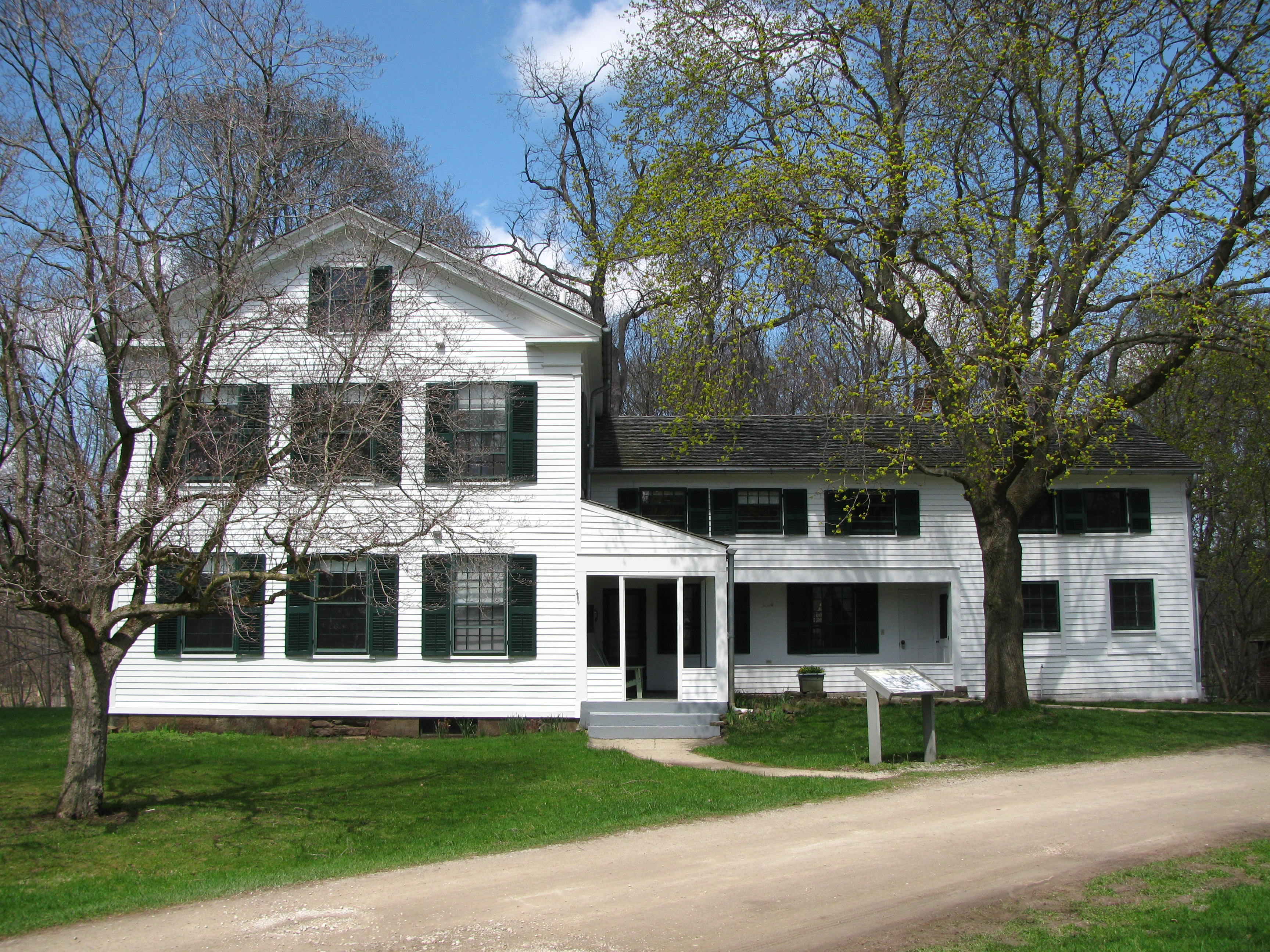 The facility has nine rooms that can sleep 30 individuals. The whole house can be booked exclusively from large groups, or individuals can rent rooms starting at $50 per night during the summer months.